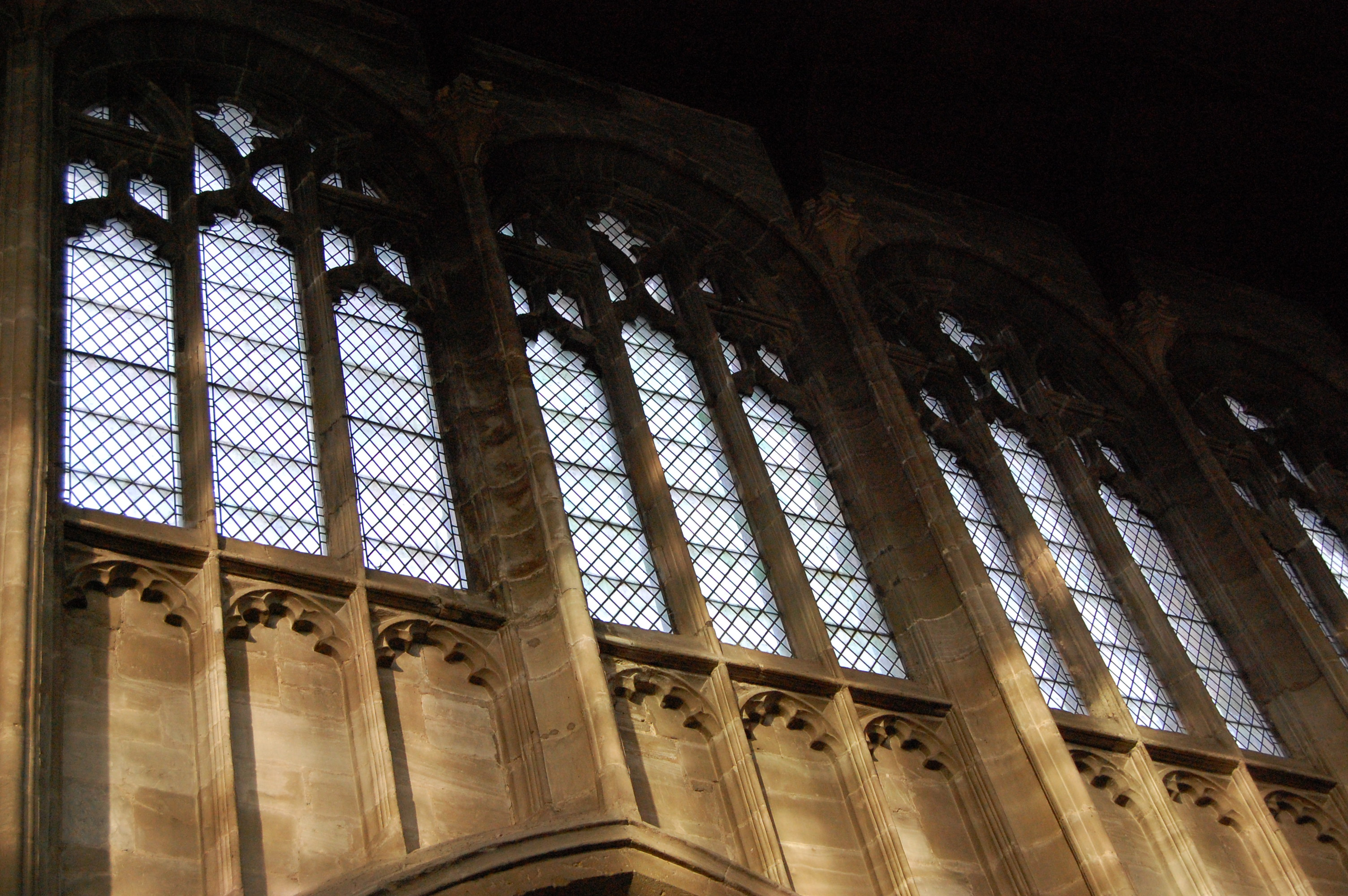 The leaded clerestory windows of Holy Trinity Church, Stratford-upon-Avon. October 2008.